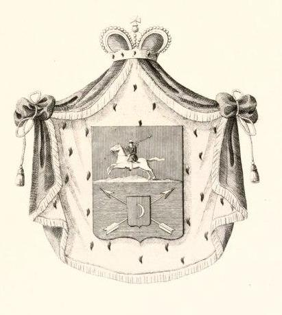 The Begtabegishvili coat of arms. 1850. Source: Heraldic Book